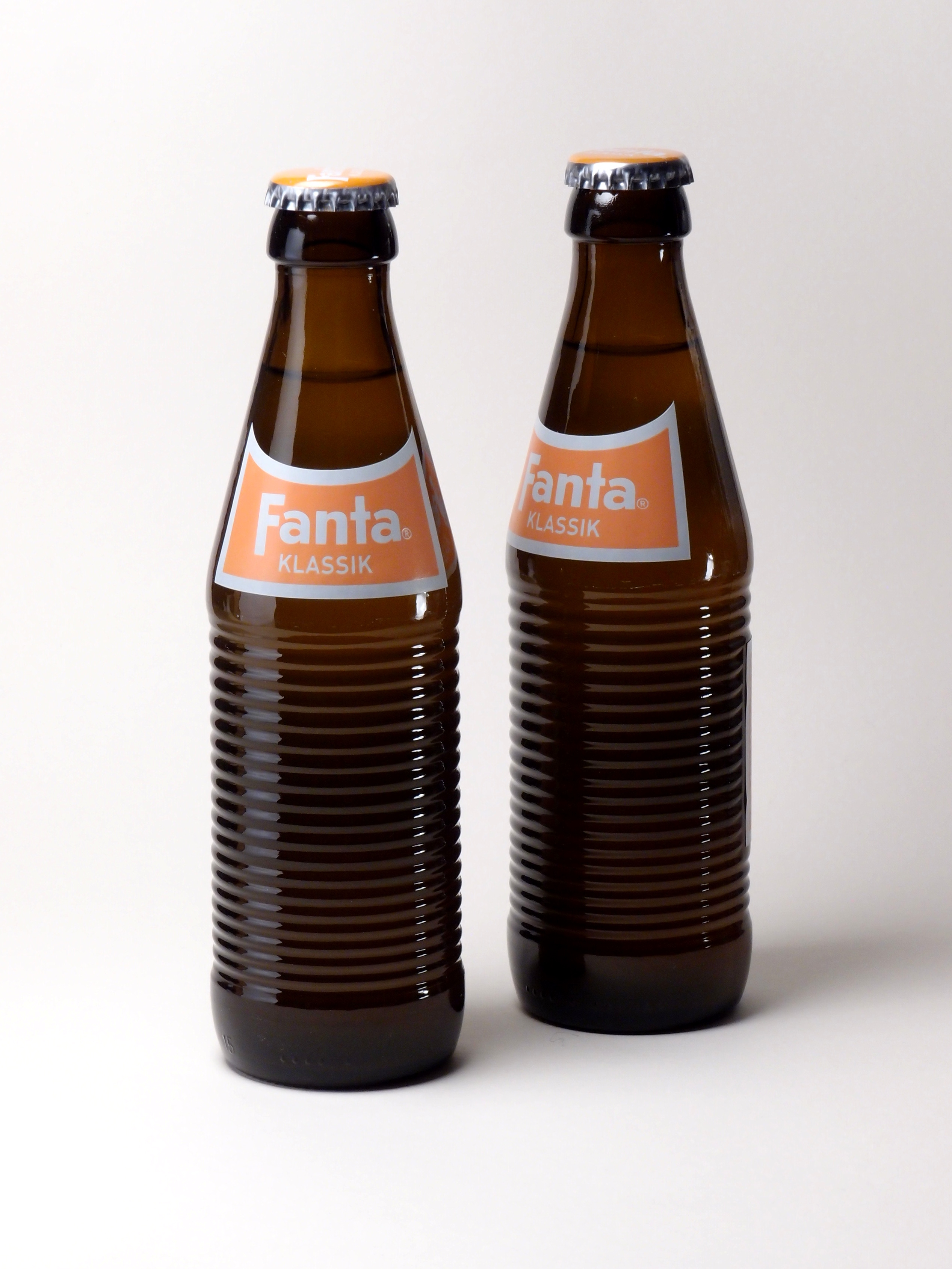 Fanta Klassik, 75th anniversay edition of the Fanta soft drink, 2015.